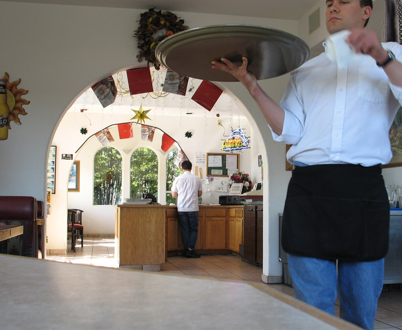 Dinner is served at Luzmilla's a Mexican Restaurant in Arcata, California.